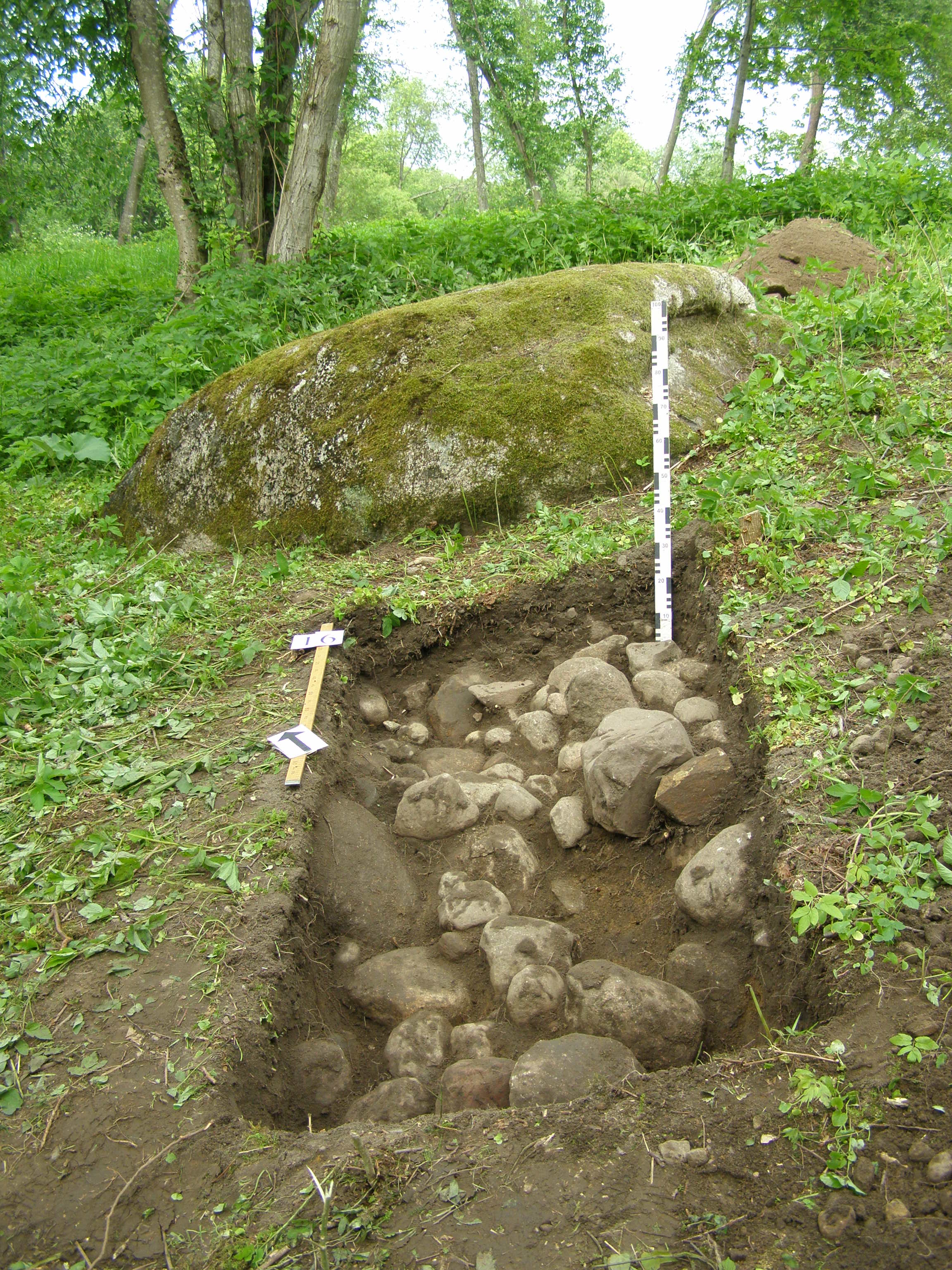 Kartena stone, Kretinga district, Lithuania